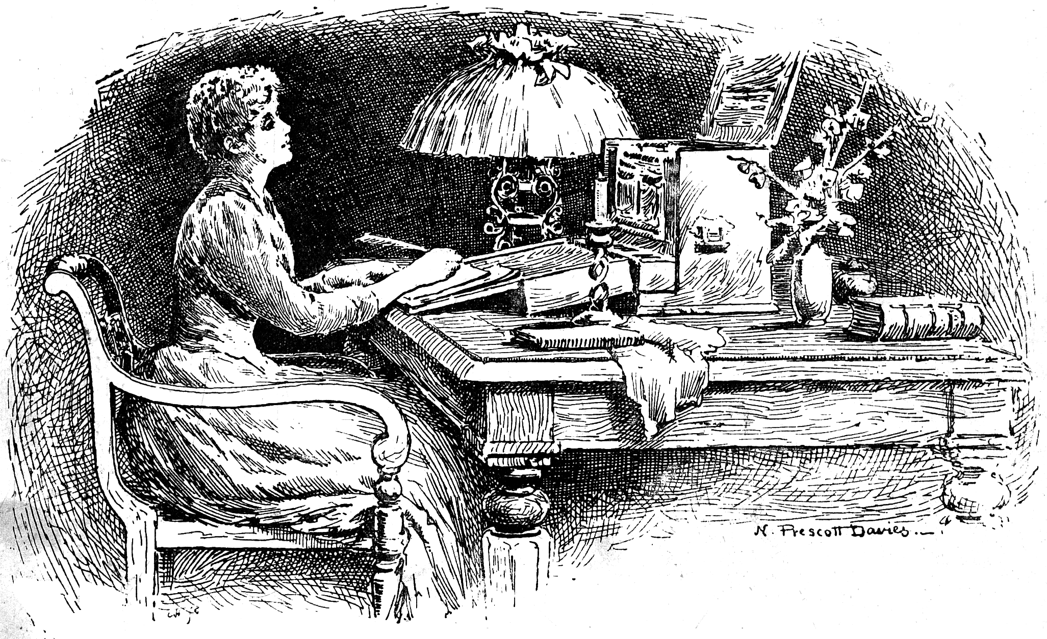 illus of "The Mirror," page 78--from scan of The Strand Magazine, Vol 1, No 1. Text by Leo Lespes, illustration by Norman Prescott Davies.